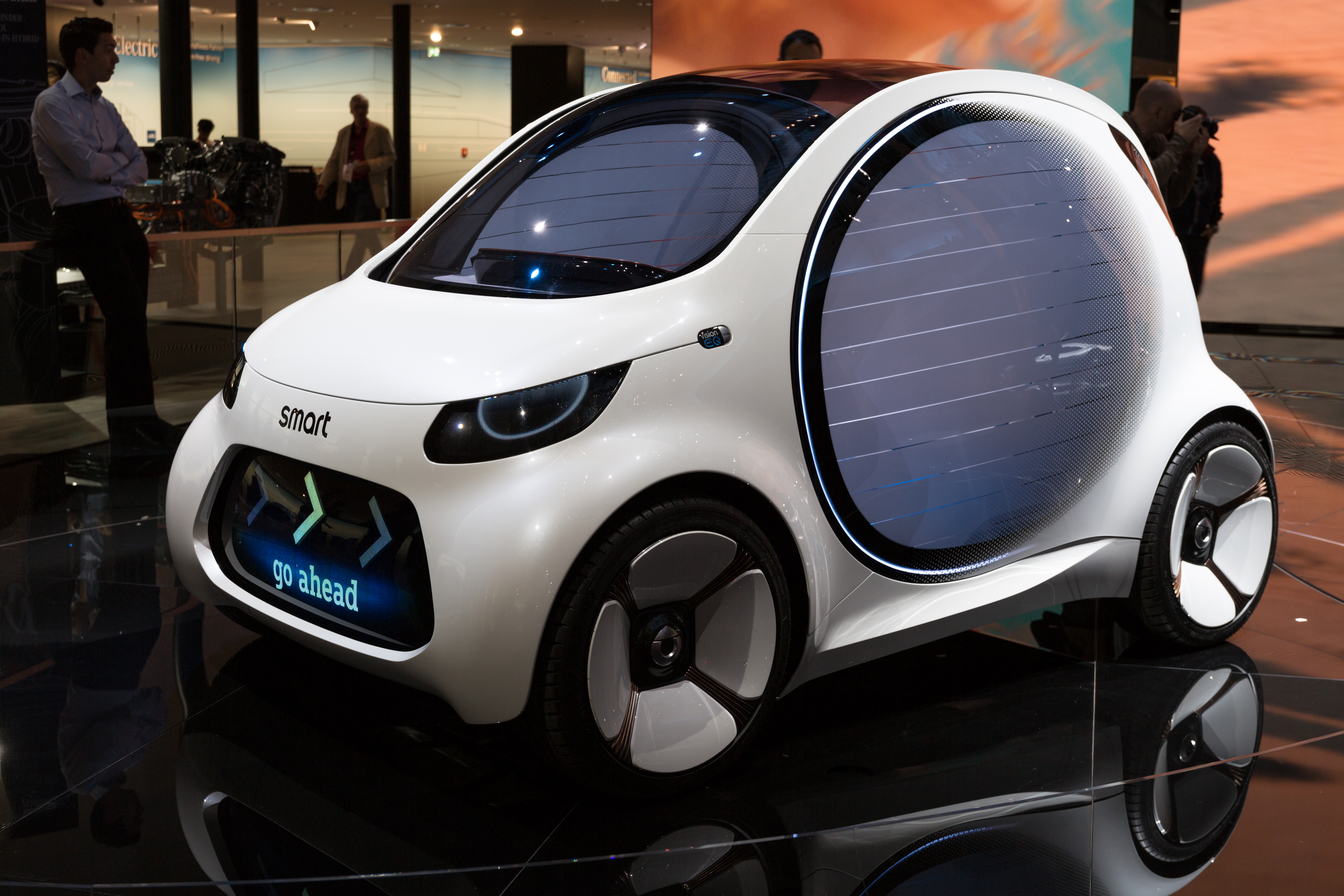 Smart Vision EQ Fortwo